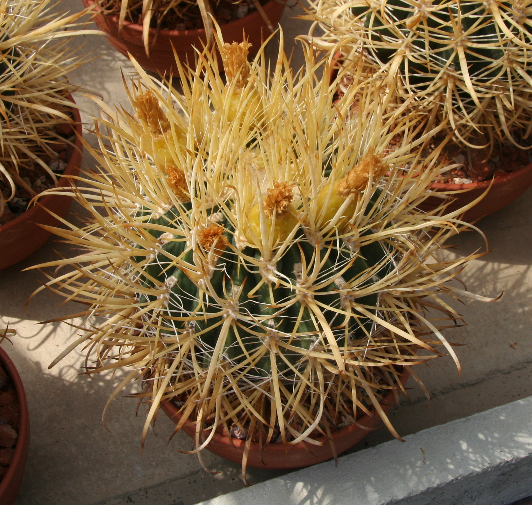 Ferocactus chrysacanthus